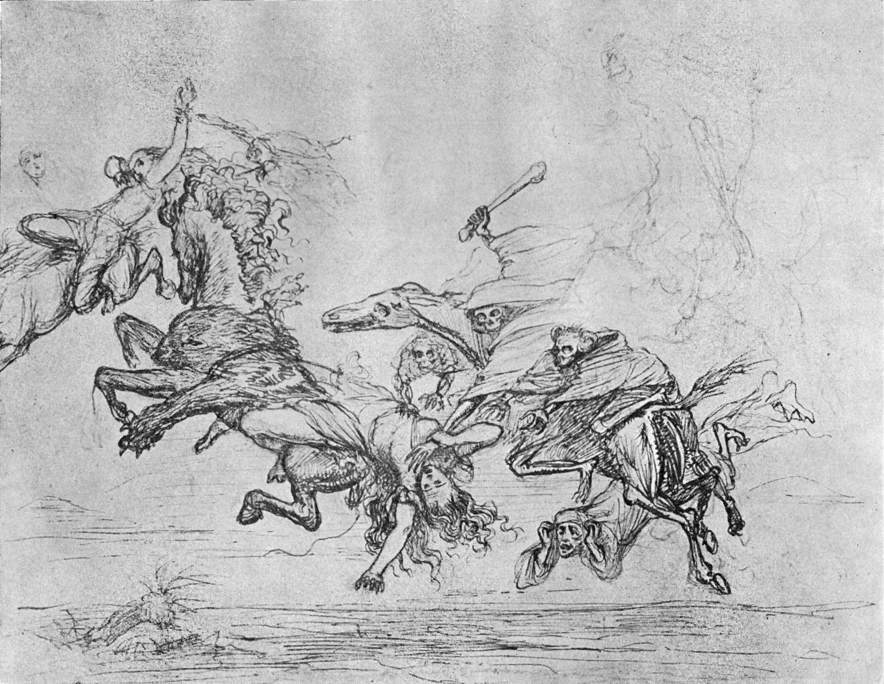 "Hel og Valkyrien: Skizze til Ragnarok" (Hel and the Valkyries: sketch to Ragnarok) by Ludvig Abelin Schou. The illustration presumably depicts valkyries being overtaken by the forces of Hel during the events of Ragnarök (a scene that is not described in extent sources).